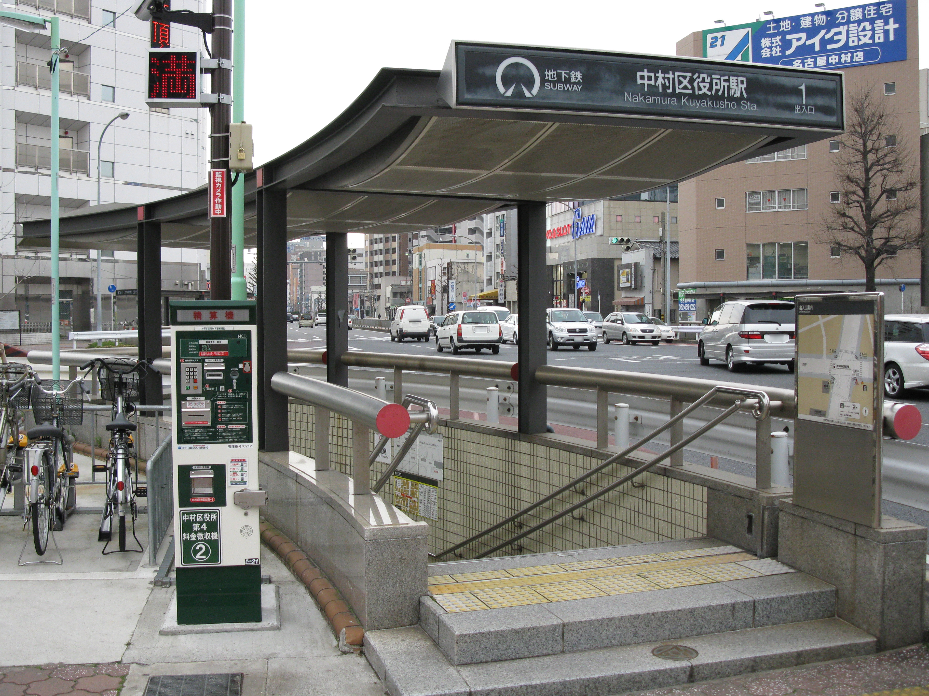 Nakamura Kuyakusho(Nakamura ward office) Station no.1 entrance (Nagoya Municipal Subway Sakura-dōri Line)